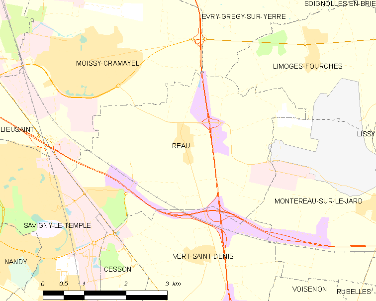 Map of French municipality Réau